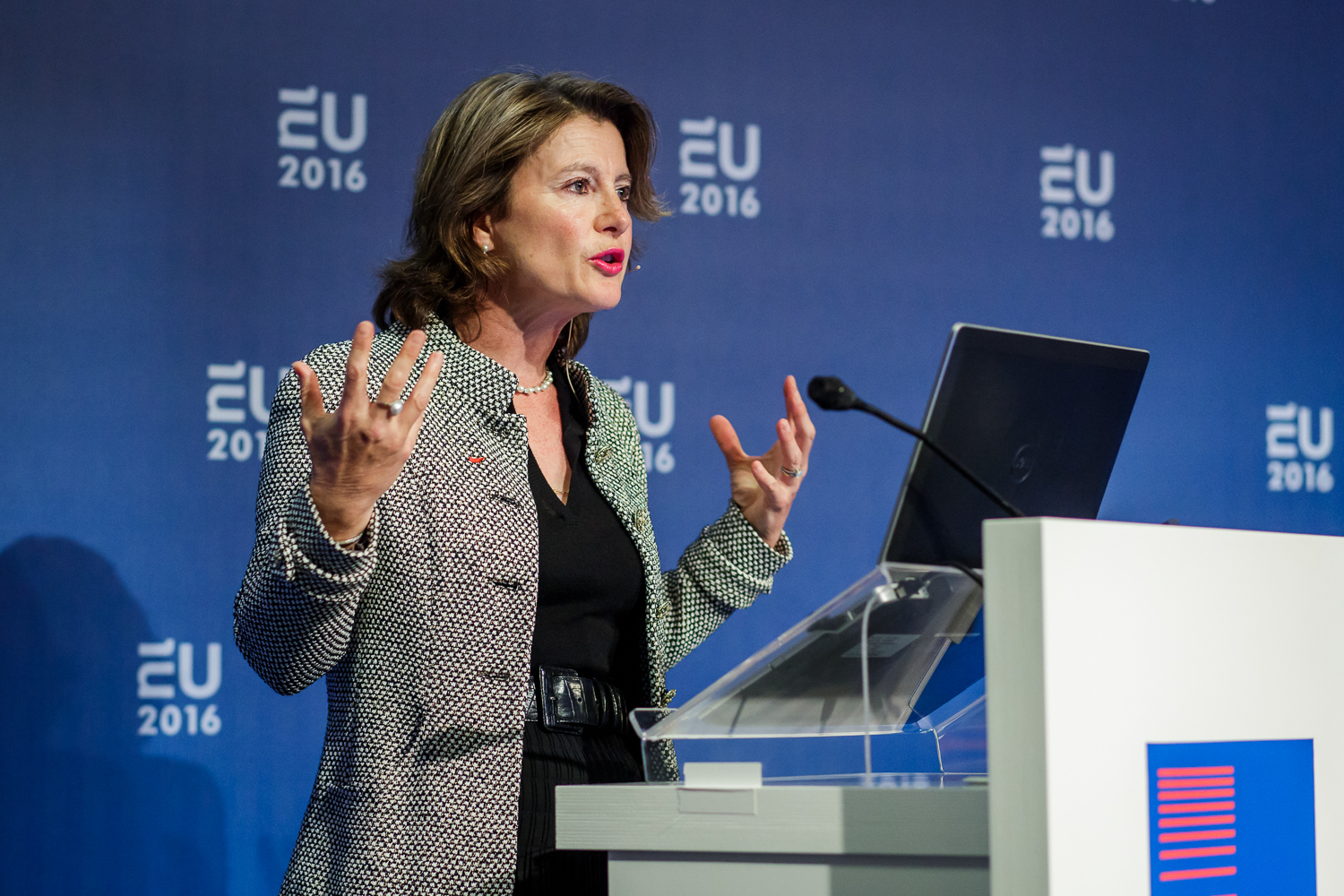 (c) Paul Voorham. Speech by Corinne Vigreux, Co-founder and Managing Director TomTom at the Consumer and competition day 18 april Amsterdam Netherlands.